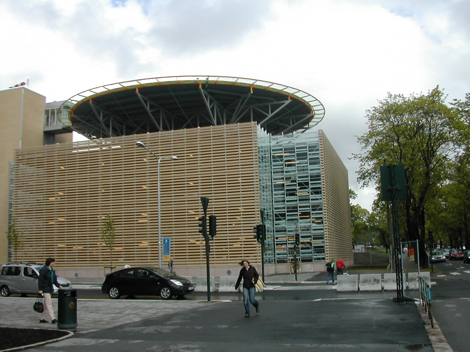 Ullevål University Hospital, the helipad outside the ER